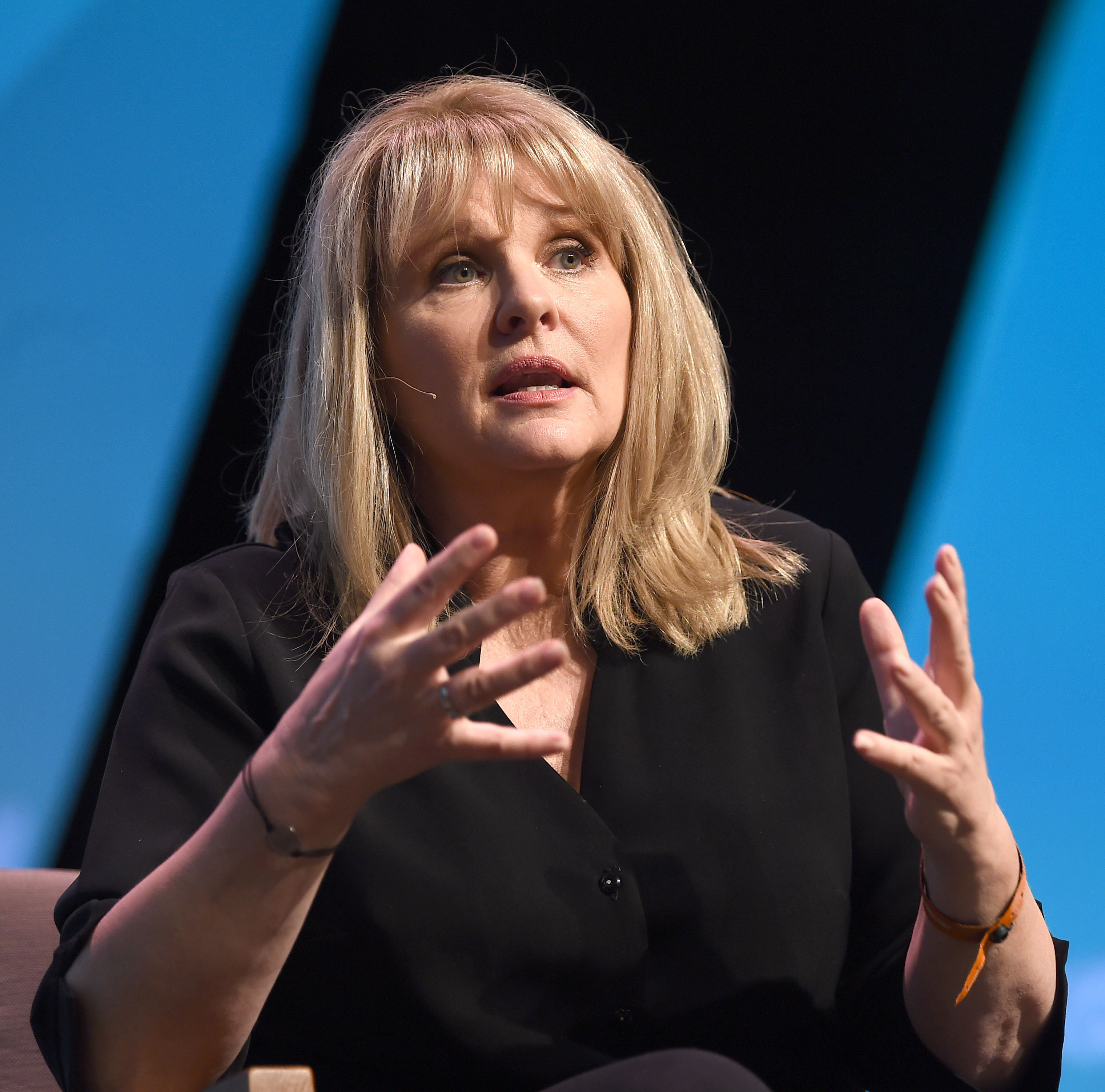 1 May 2018; Mary Aiken,, CyberPsychologist&Author, UCD, on Center Stage stage during day one of Collision 2018 at Ernest N. Morial Convention Center in New Orleans. Photo by Diarmuid Greene/Collision via Sportsfile